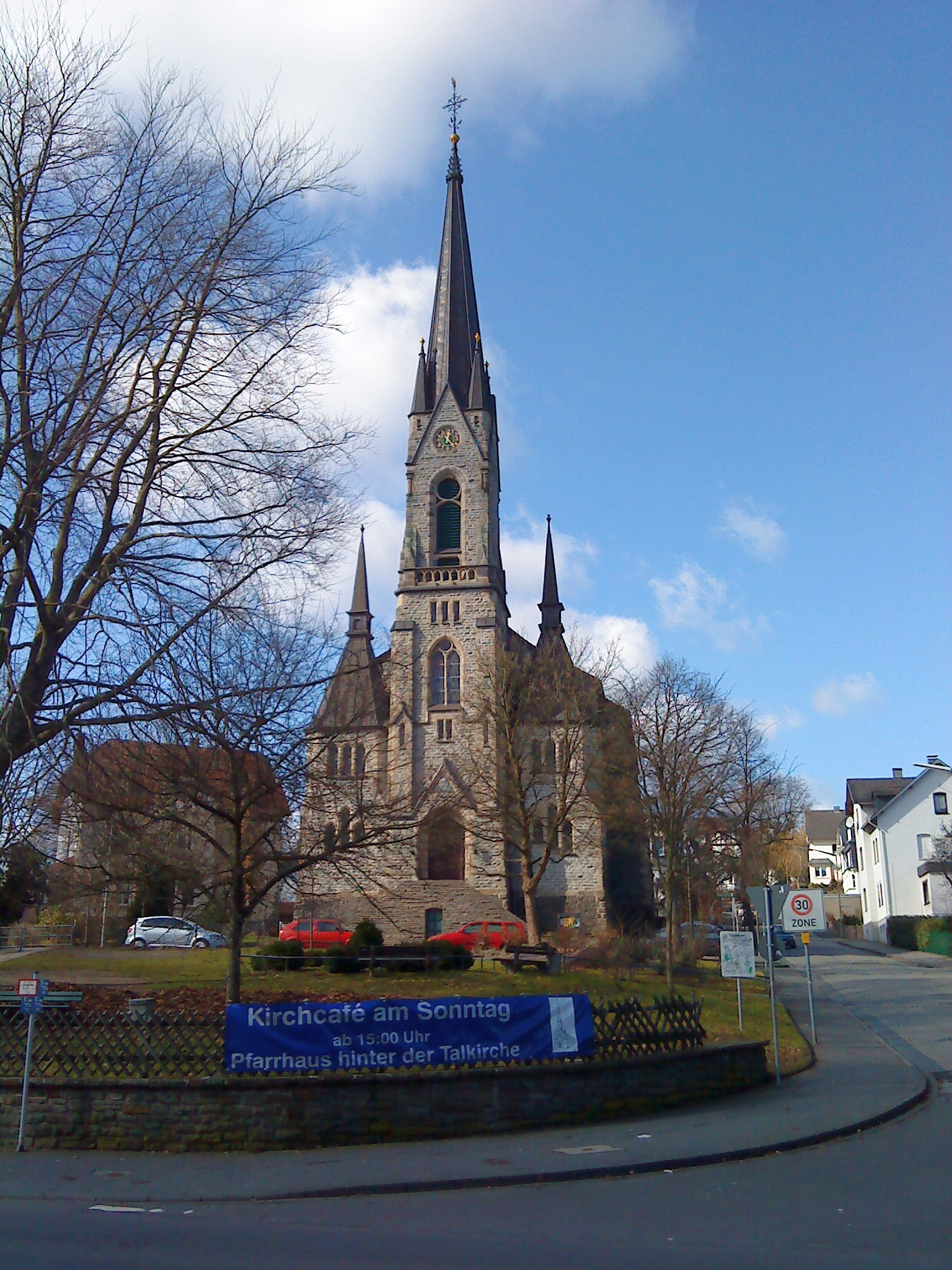 Photo of the Talkirche in Siegen-Geisweid, Germany